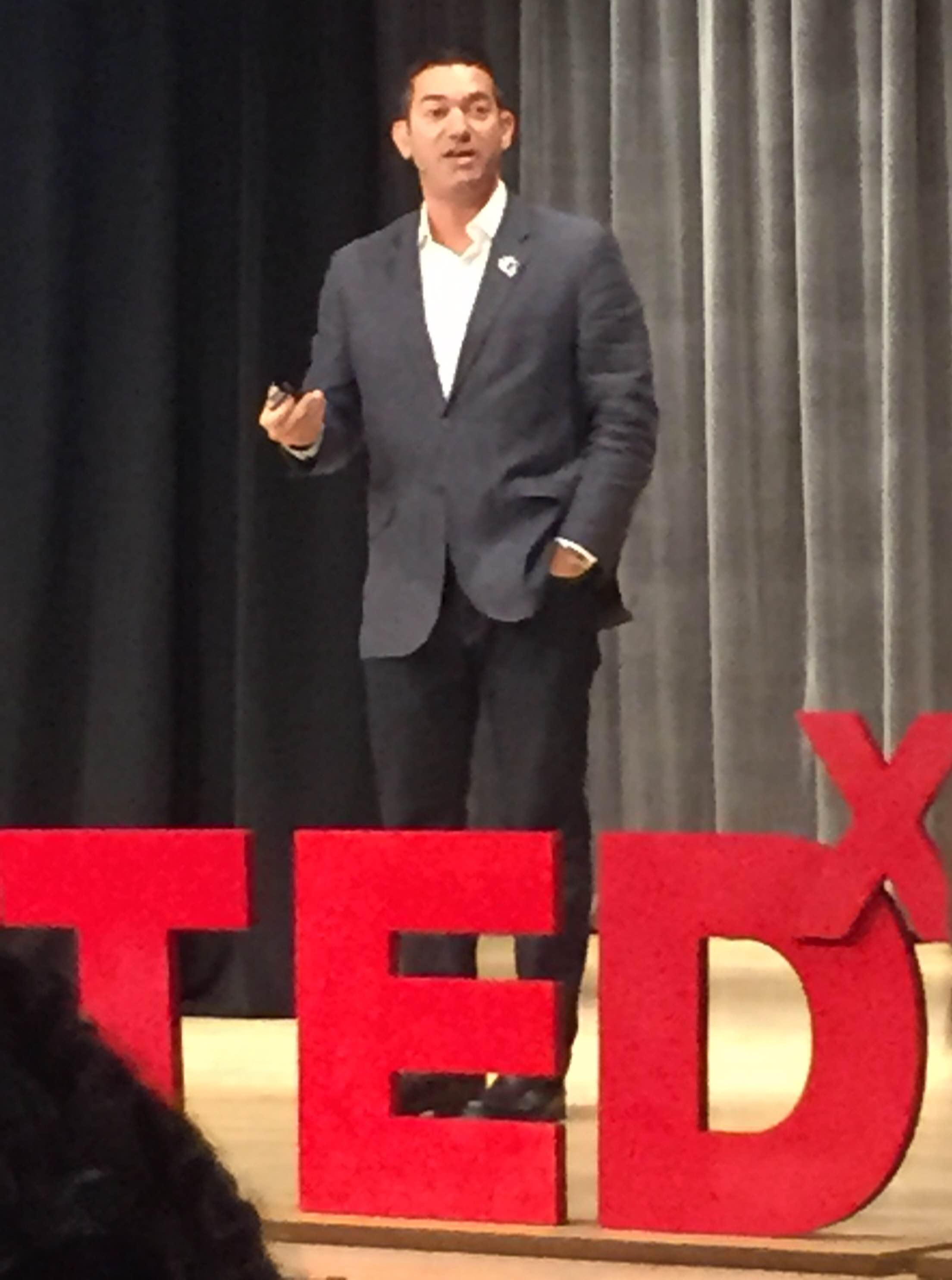 Michael Hecht speaking at TEDxNewOrleans